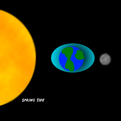 Spring tide.